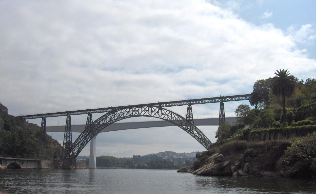 Ponte Maria Pia; bridge over the Douro river in Porto, Portugal